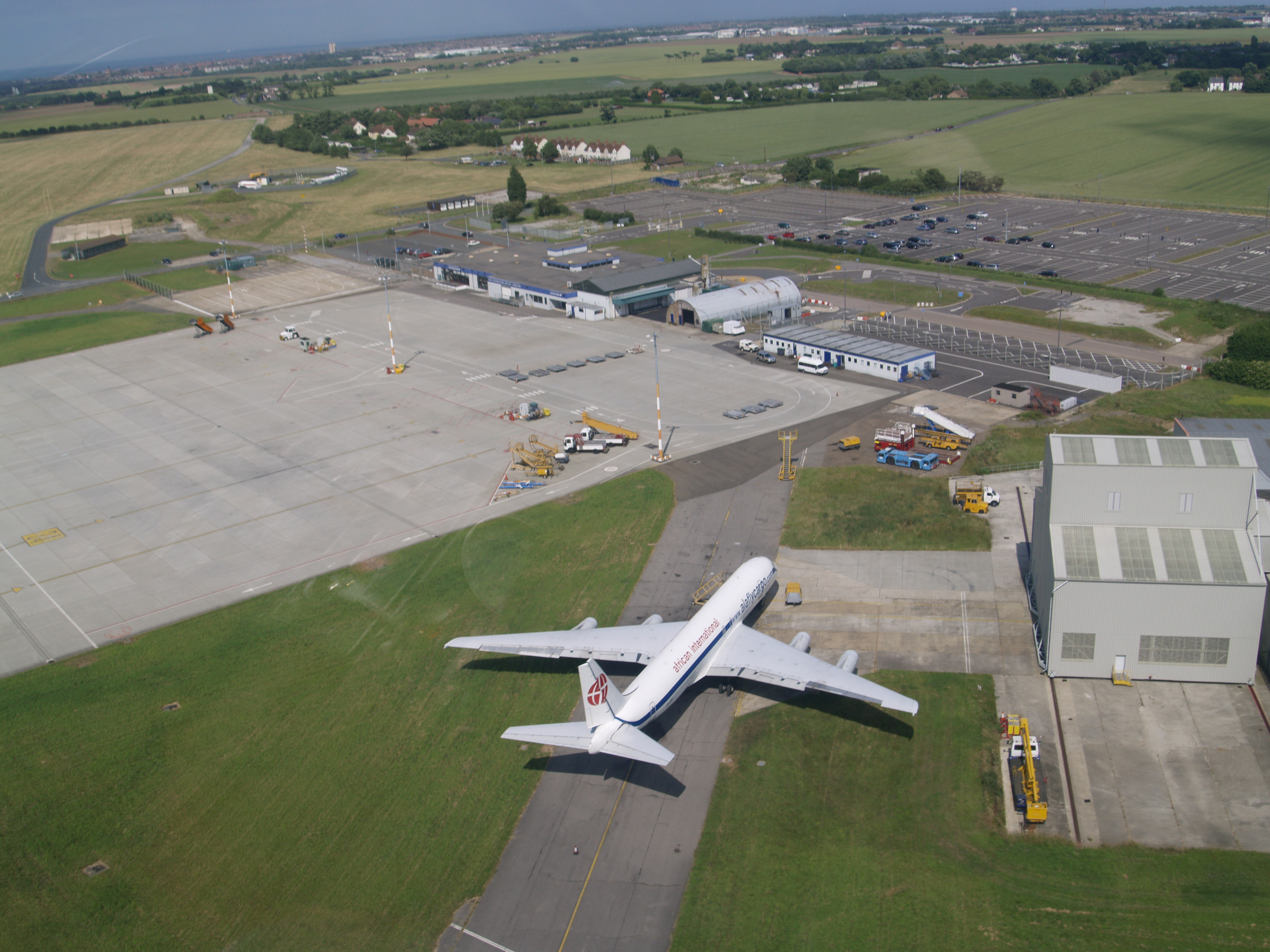 African International Airways Douglas DC-8 at Manston Airport